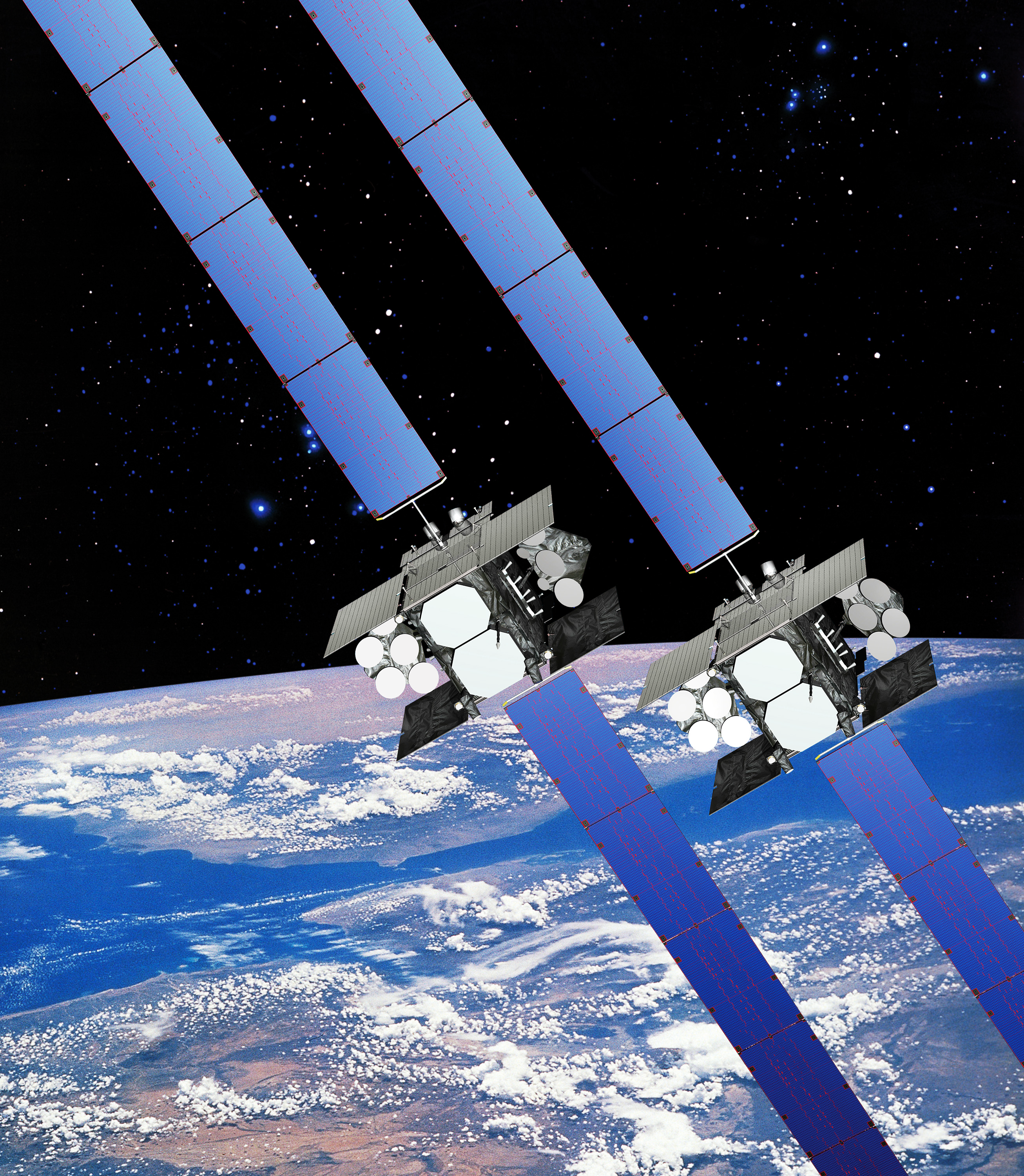 Drawing of the U.S. Military's Wideband Global SATCOM (WGS) satellites; both the Block I and Block II versions of the WGS are illustrated.